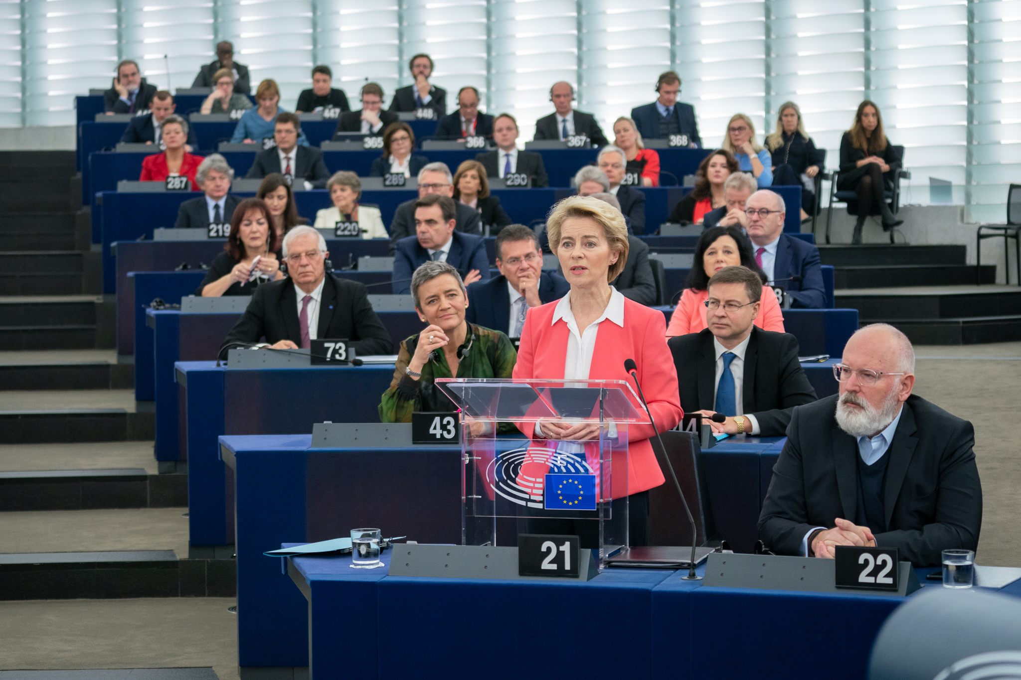 After assessing all the commissioners-designate, MEPs will decide on 27 November whether to elect the Commission as a whole, allowing it to take office on 1 December. Ursula von der Leyen speaking in a packed plenary chamber Commission President-elect Ursula von der Leyen speaks to plenary The plenary vote on Wednesday would bring to an end the long process of careful examination by Parliament of the proposed team of commissioners. Its objective was to ensure that the EU’s executive body has the democratic legitimacy to act in the interest of Europeans. MEPs elected Ursula von der Leyen as Commission president in July. Then, from the end of September to mid-November, parliamentary committees organised hearings with each of the nominees to judge their suitability for their proposed post. On 21 November political group leaders and Parliament’s president Sassoli agreed that the process of examination had been completed and that Parliament is ready to hold the final plenary vote. On Wednesday 27 November, President-elect Ursula von der Leyen will present her team and the new Commission’s programme. Following a debate, MEPs will decide by simple majority whether to elect the Commission or not. If approved, the new Commission will start work on 1 December. Read our Top Story Collection here: This photo is free to use under Creative Commons license CC-BY-4.0 and must be credited: "CC-BY-4.0: © European Union 2019 – Source: EP". No model release form if applicable. For bigger HR files please contact: webcom-flickr(AT)